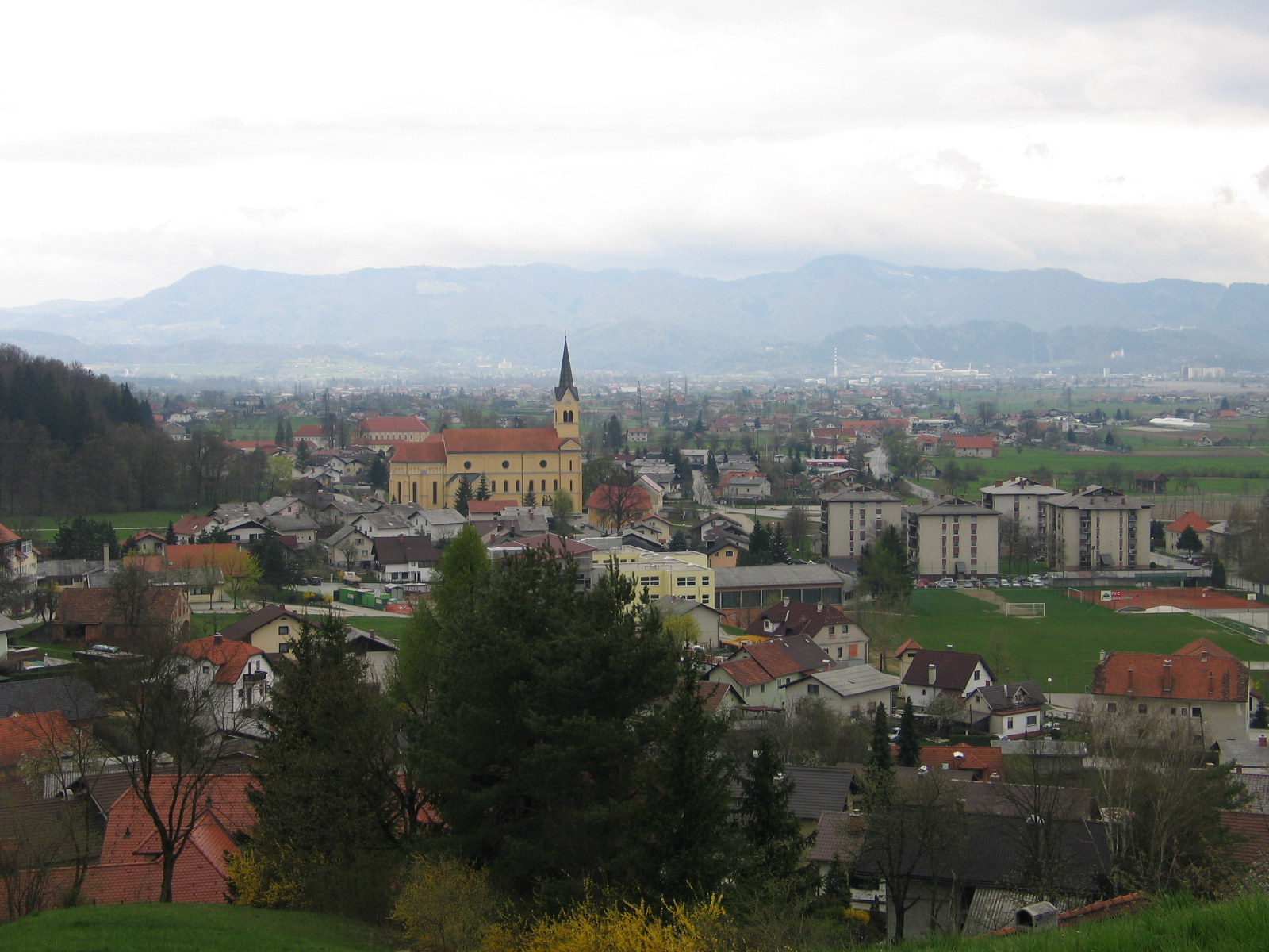 Vojnik, Vojnik, a view towards the south. The city in the background is Celje.